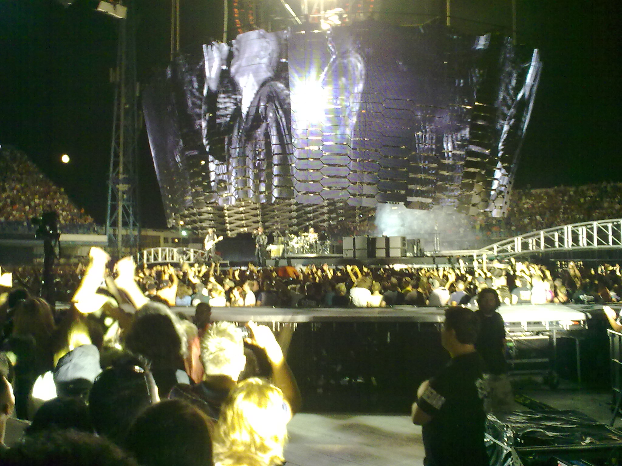 U2 360 Tour, Zagreb 2009-08-09